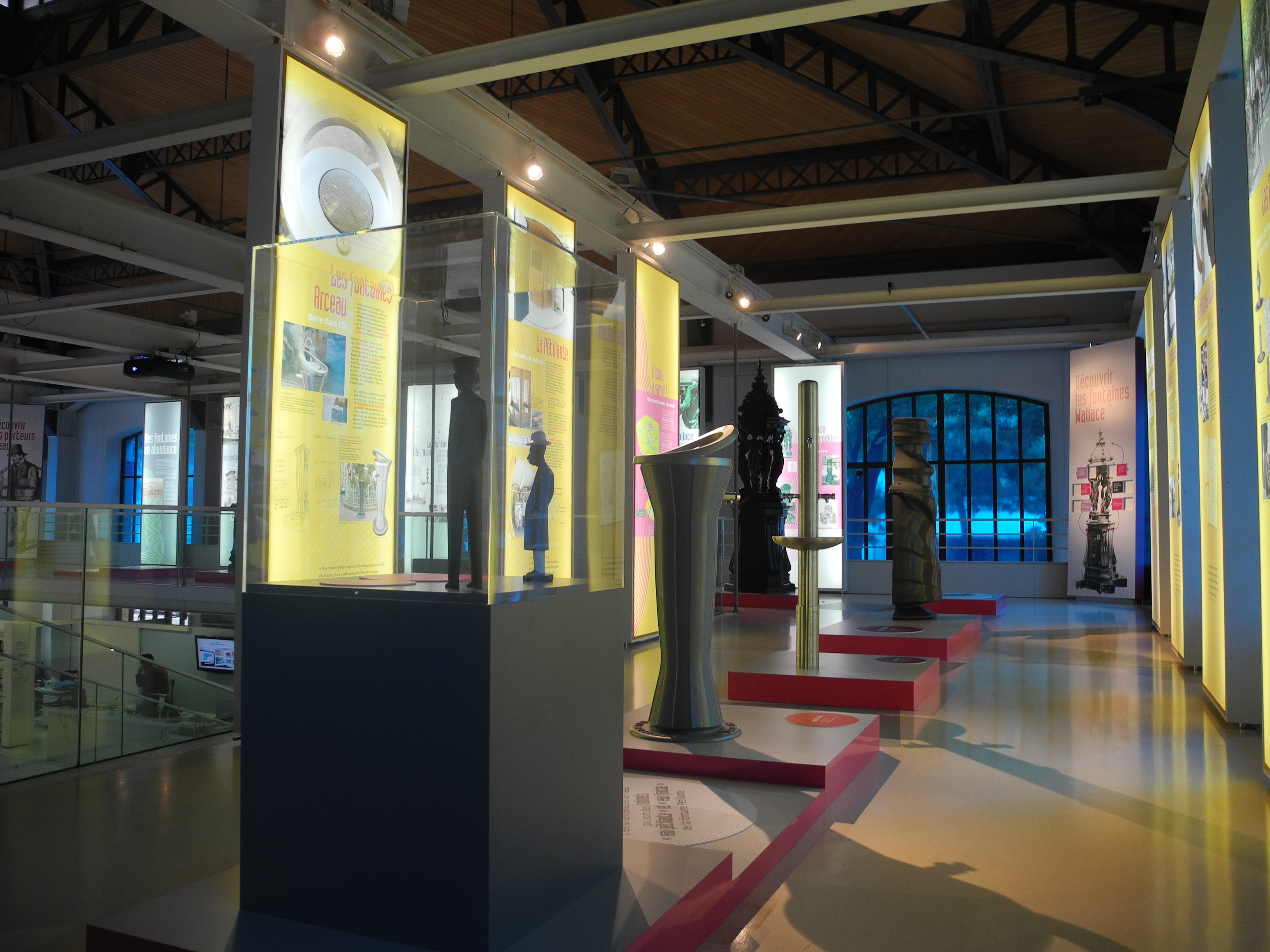 Exhibition À boire, à voir Pavillon de l'eau 2010